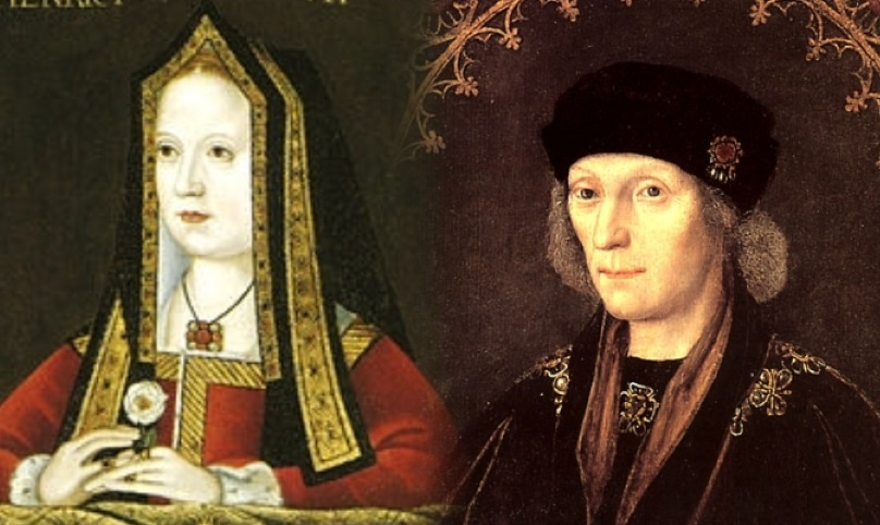 West-Vlams: Henry VII Tudor et sa femme Elisabeth d'York, parents d'Henry VIII Tudor.